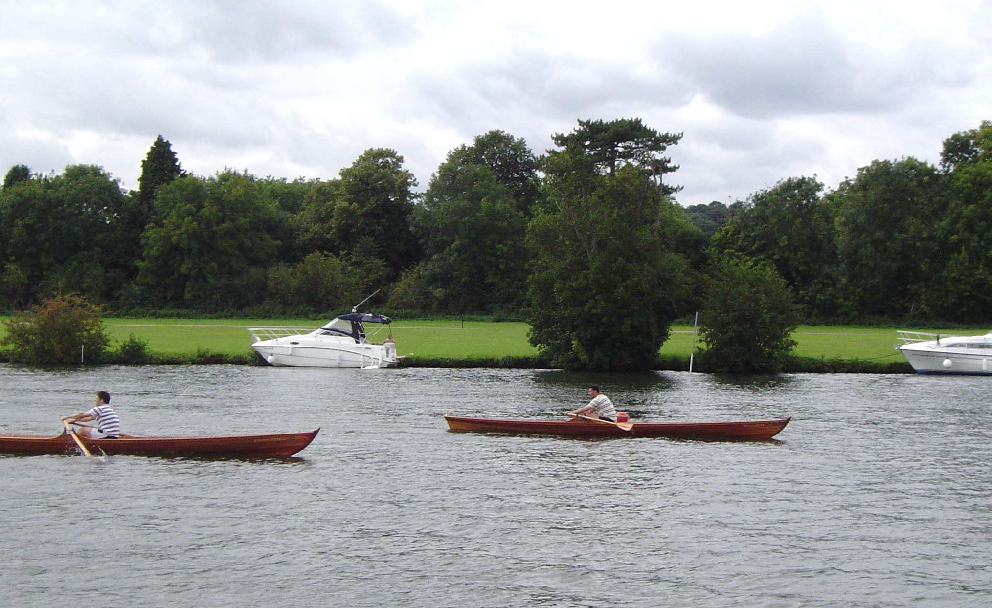 Skiff Championships Gents Singles Henley River Thames